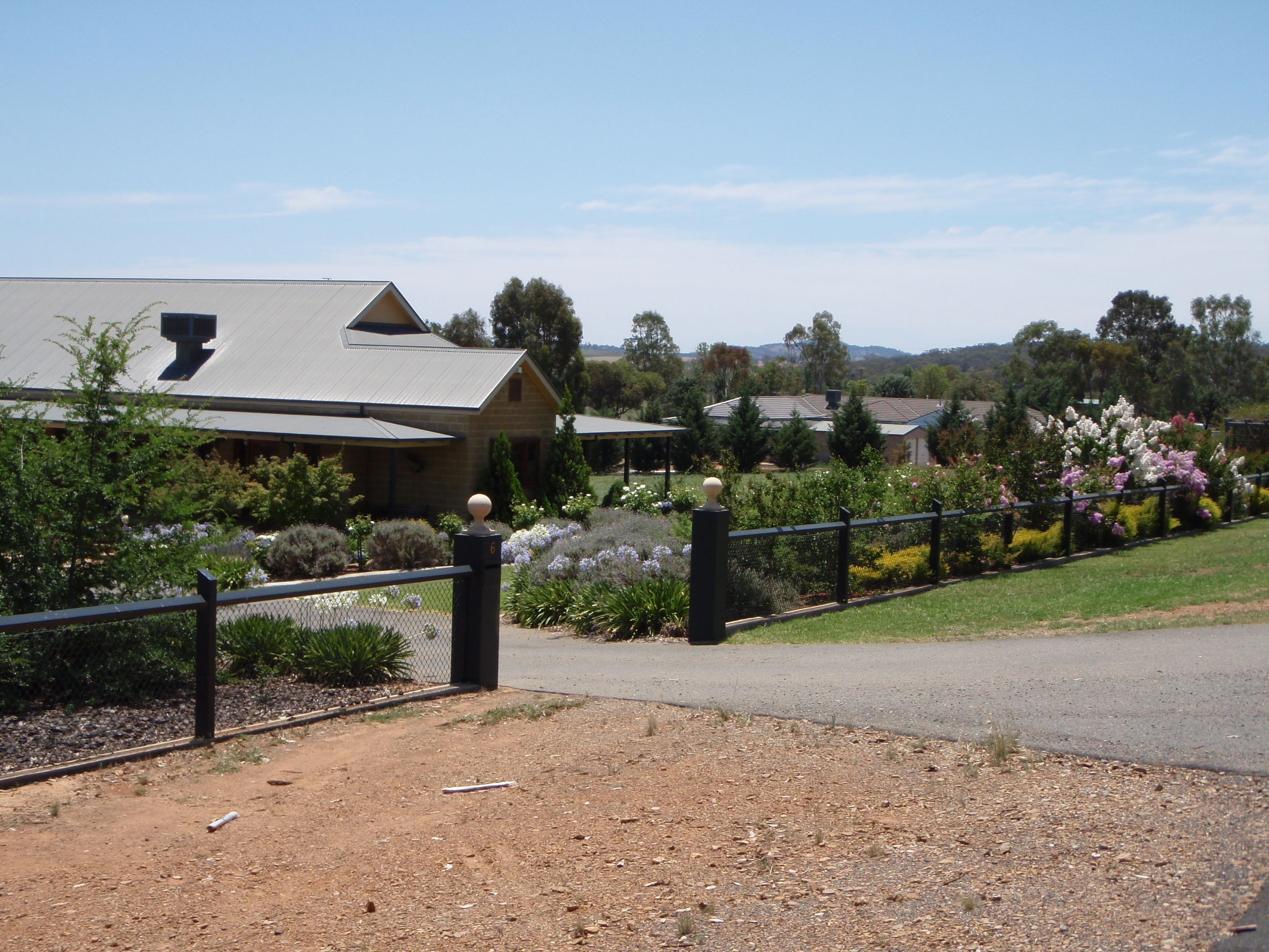 A small section of the rural homesteads in San Isidore NSW